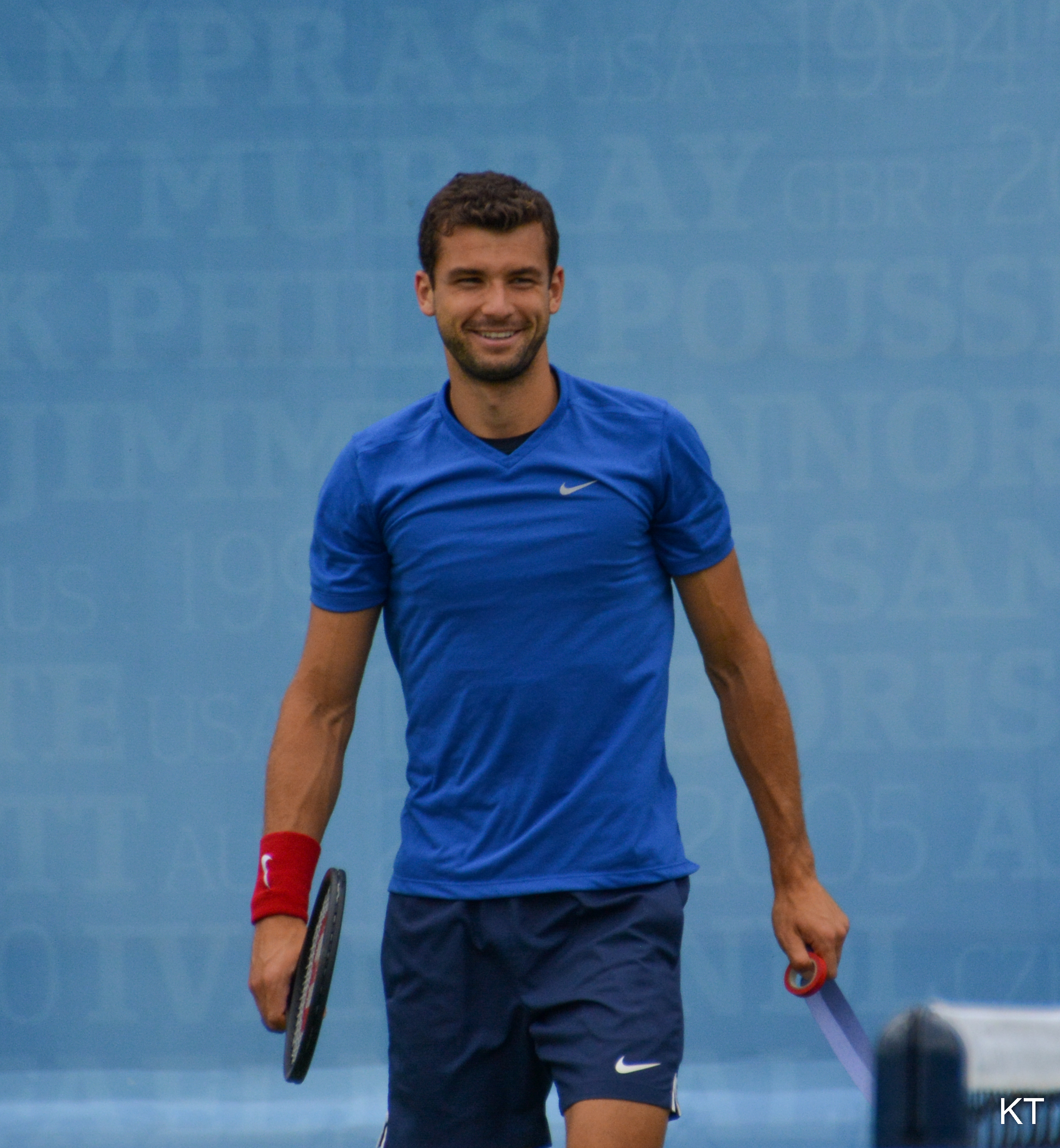 On the practice court. Aegon Championships, Queen's Club, June 2015.